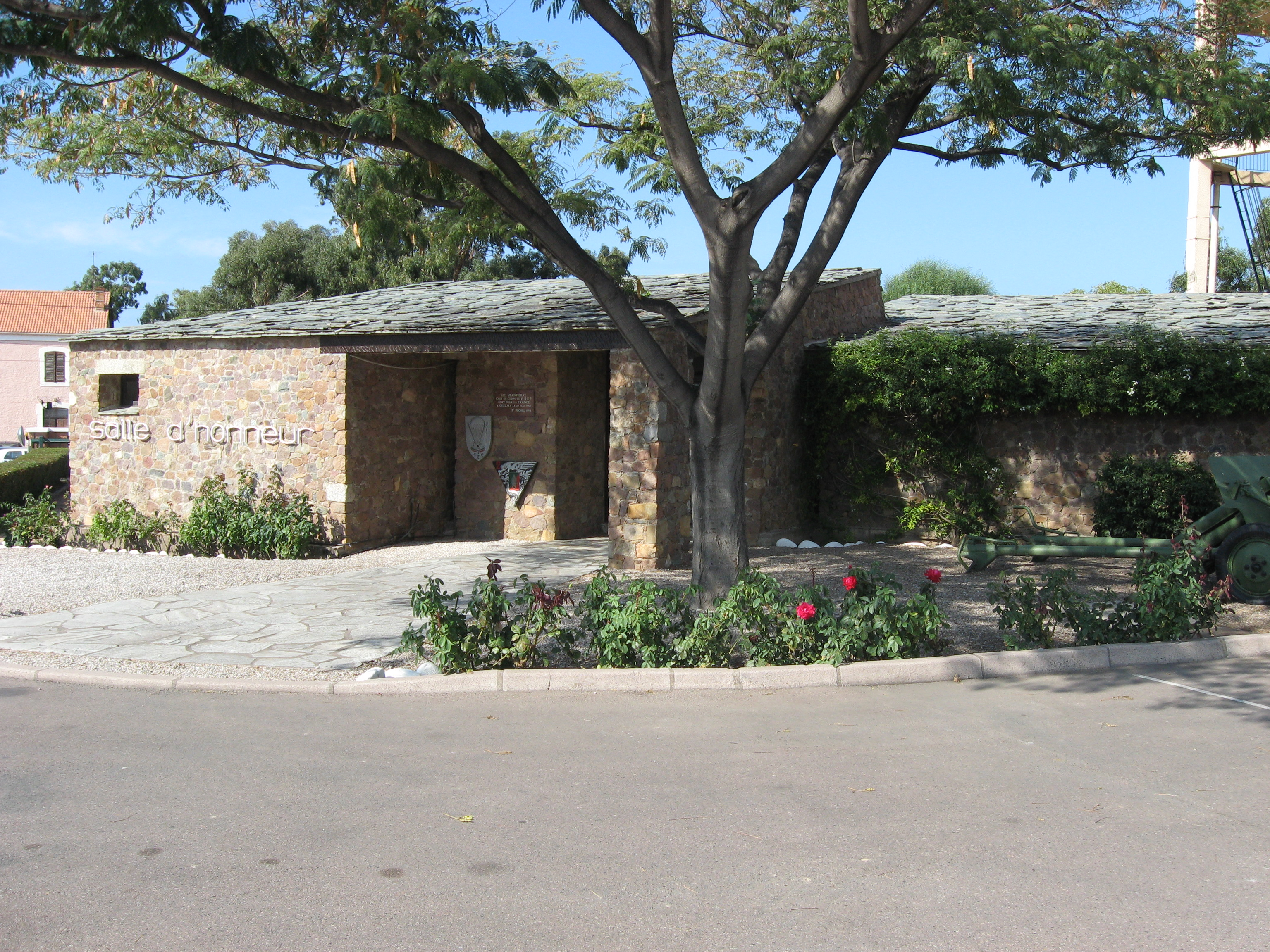 2nd Foreign parachut regiment's museum in Calvi, Corsica (France)